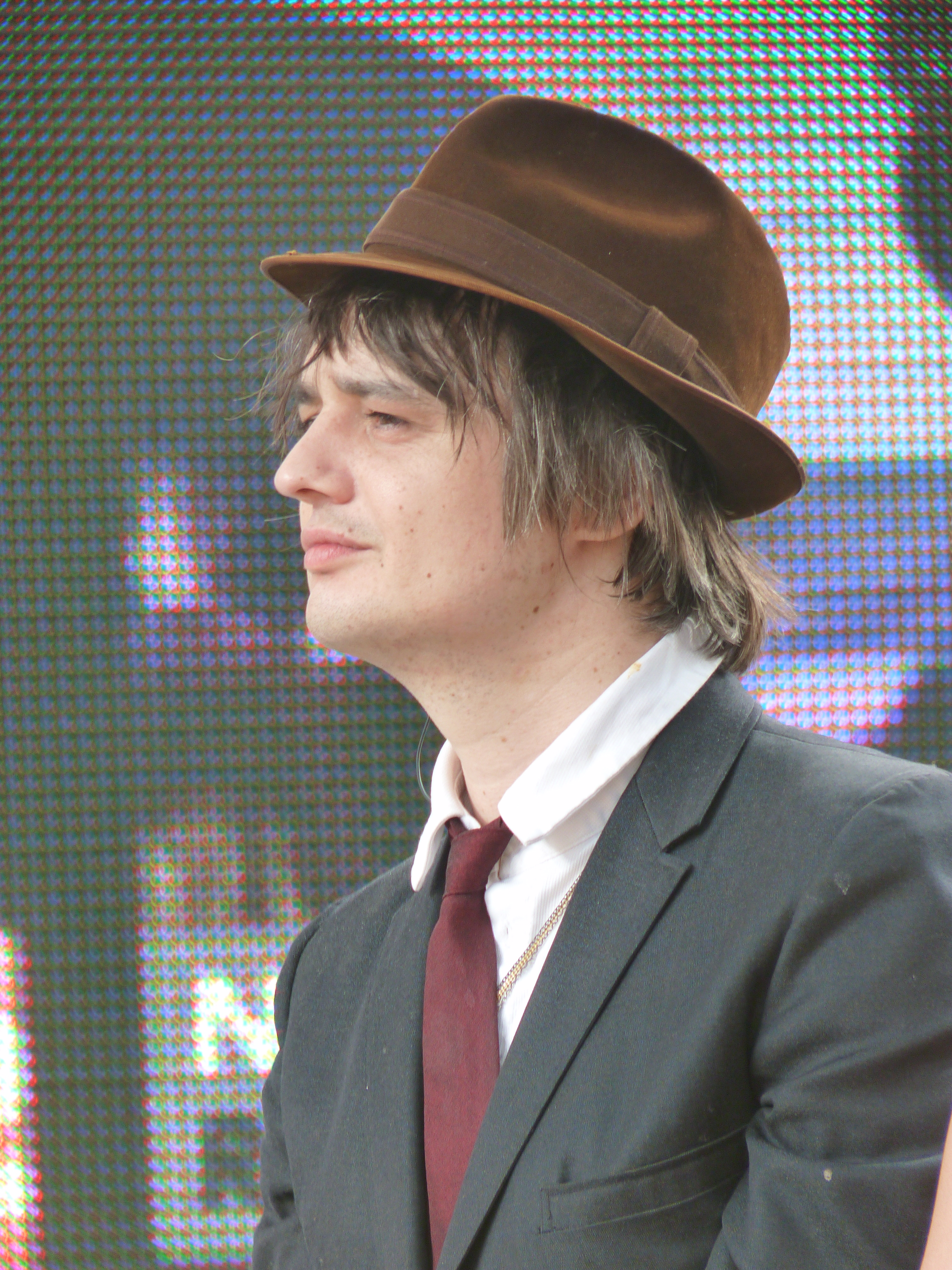 Pete Doherty at the 2012 Cannes Film Festival.